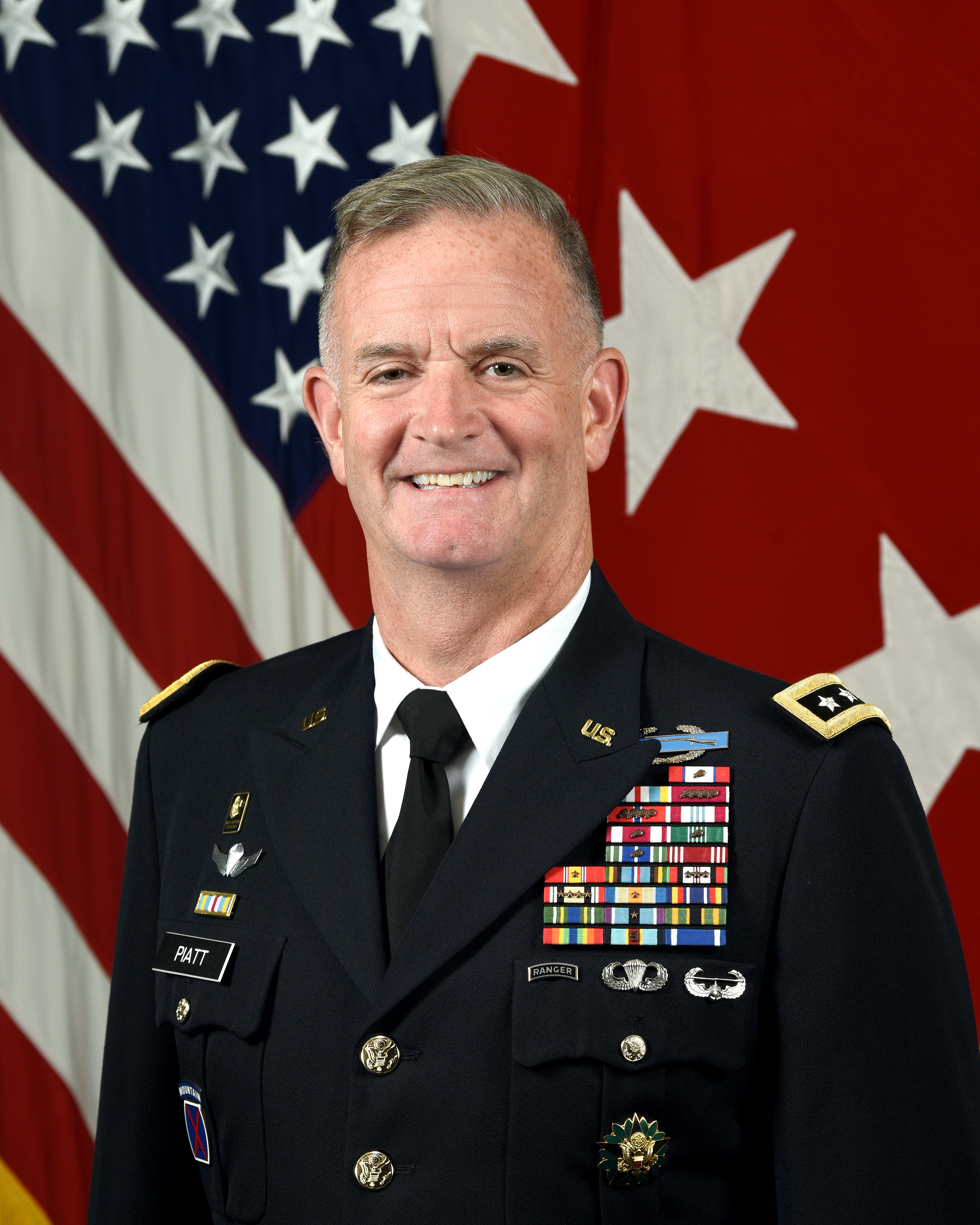 U.S. Army Lt. Gen. Walter E. Piatt, Director of the Army Staff, poses for a command portrait in the Army portrait studio at the Pentagon in Arlington, Va., June 5, 2019. (U.S. Army photo by Monica King)